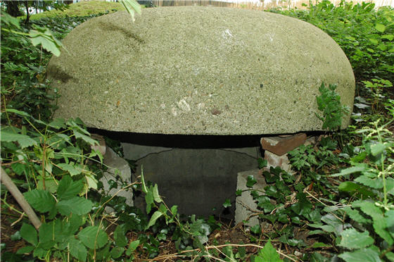 Small bunker of Pantherstellung in Arnhem